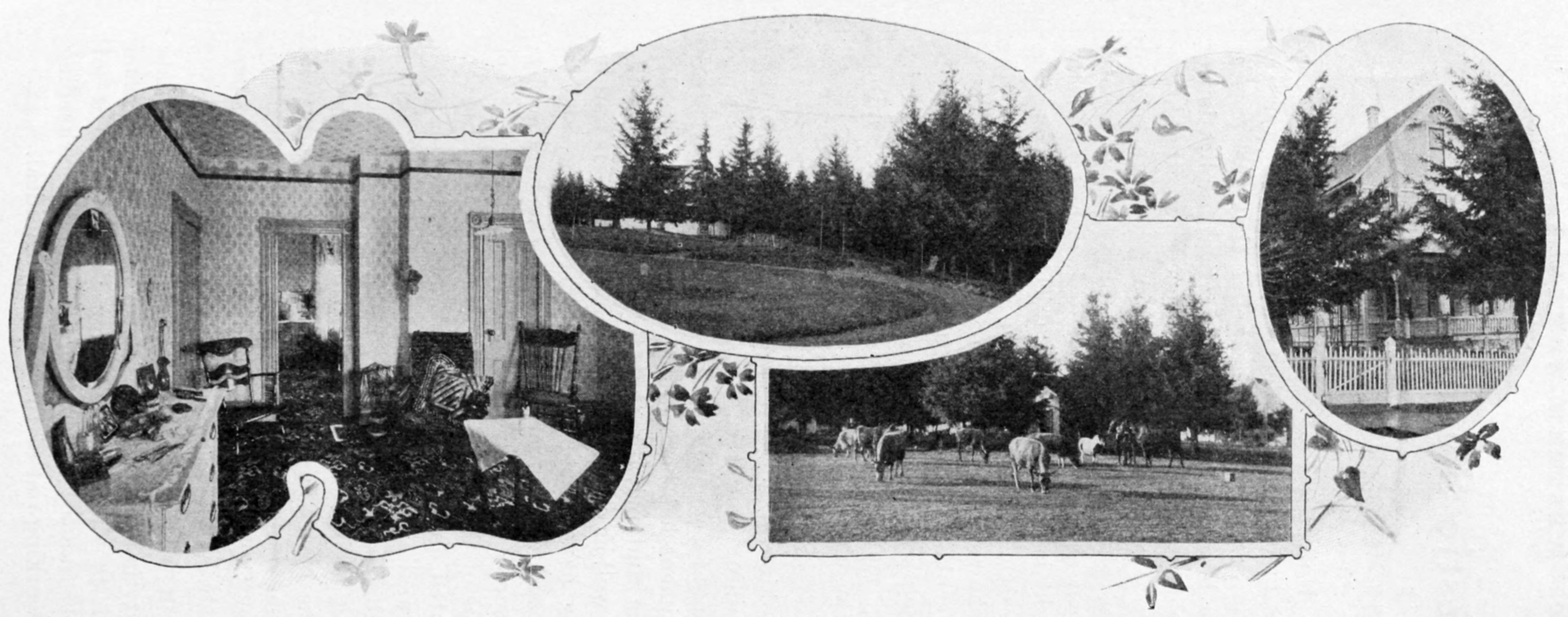 Crystal Springs Sanitarium (previously known as Mt. Tabor Sanitarium) at the top of Mount Tabor in Portland, Oregon USA.